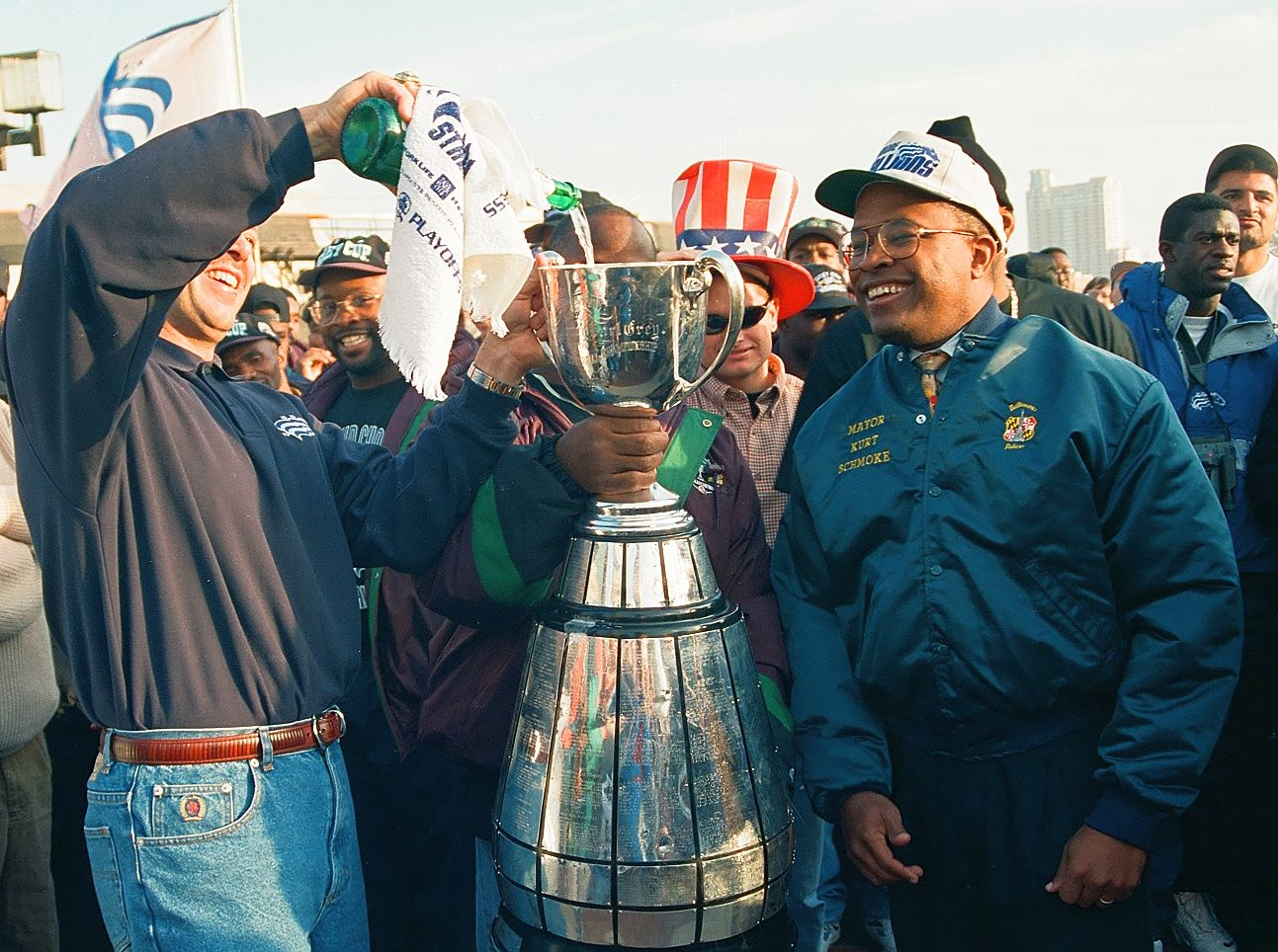 Only American team to ever win Grey Cup Harborplace Baltimore